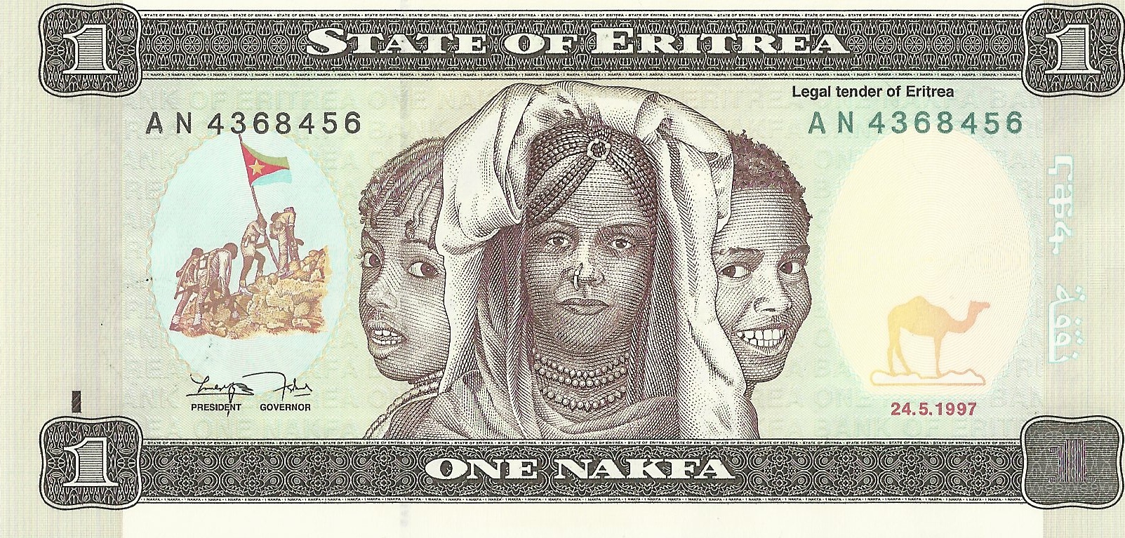 One Eritrean Nakfa series 24.5.1997